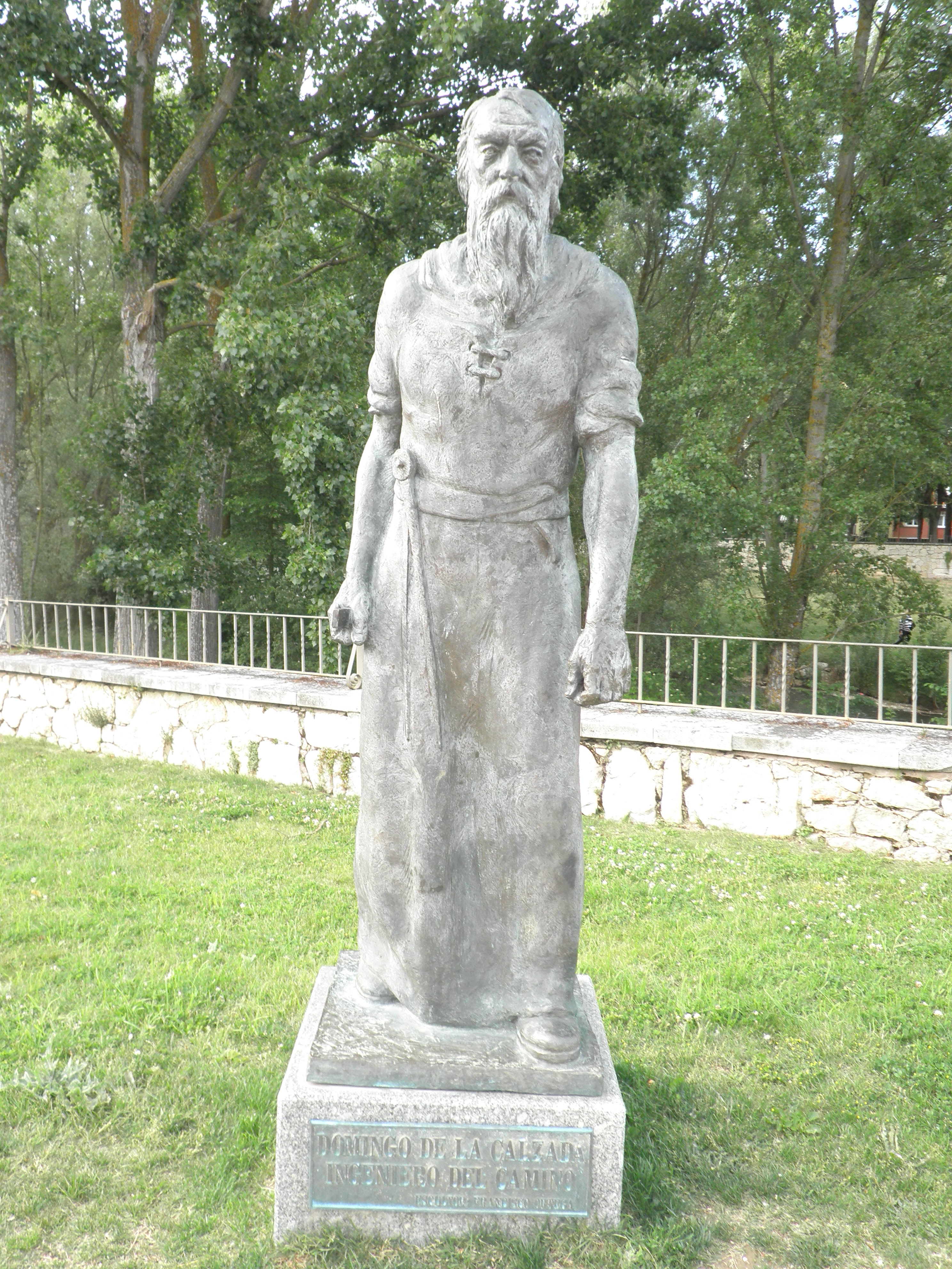 Statue of Saint Dominic of the Causeway in Burgos